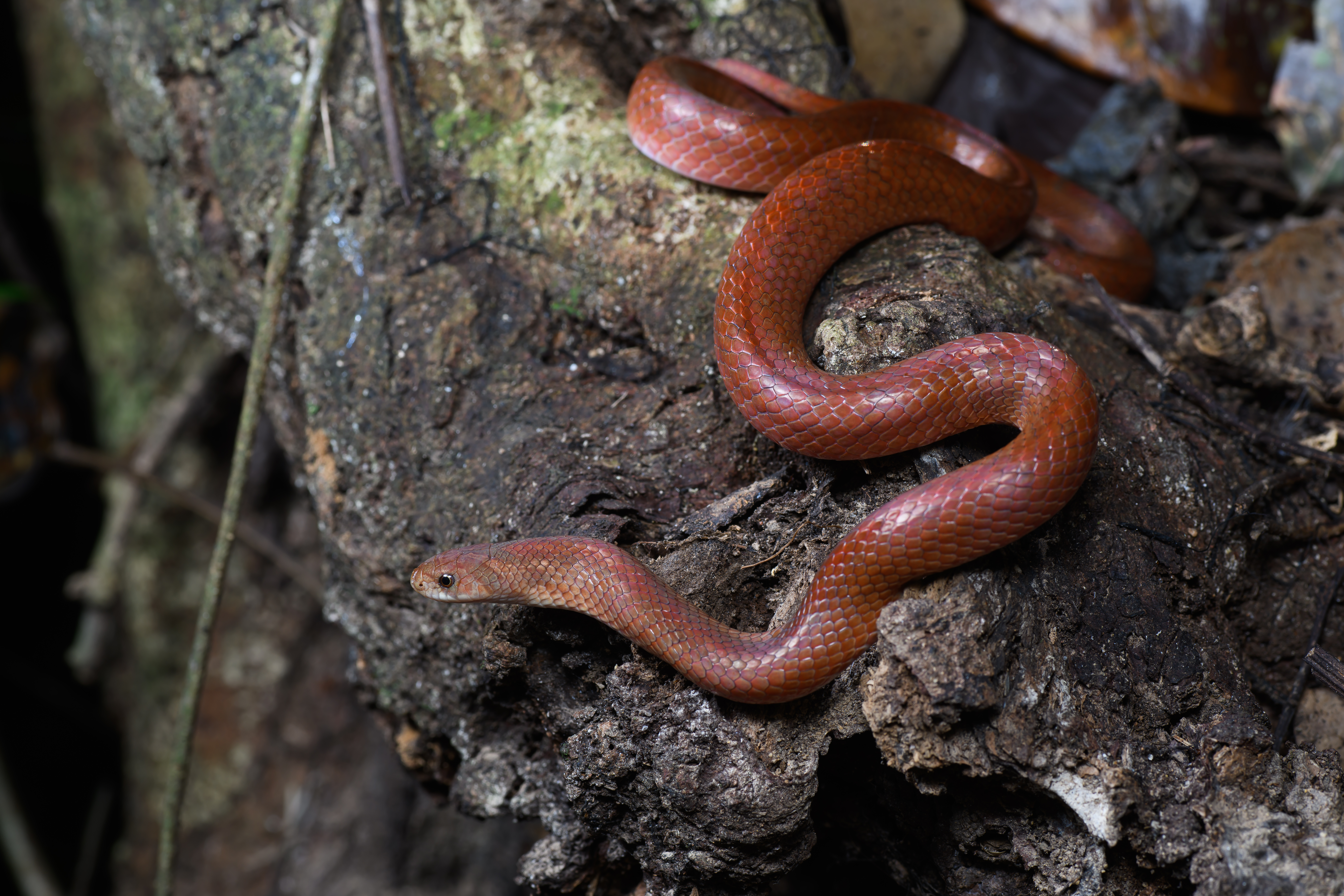 Hua Hin kukri snake (Oligodon huahin) - Kaeng Krachan National Park, Thailand